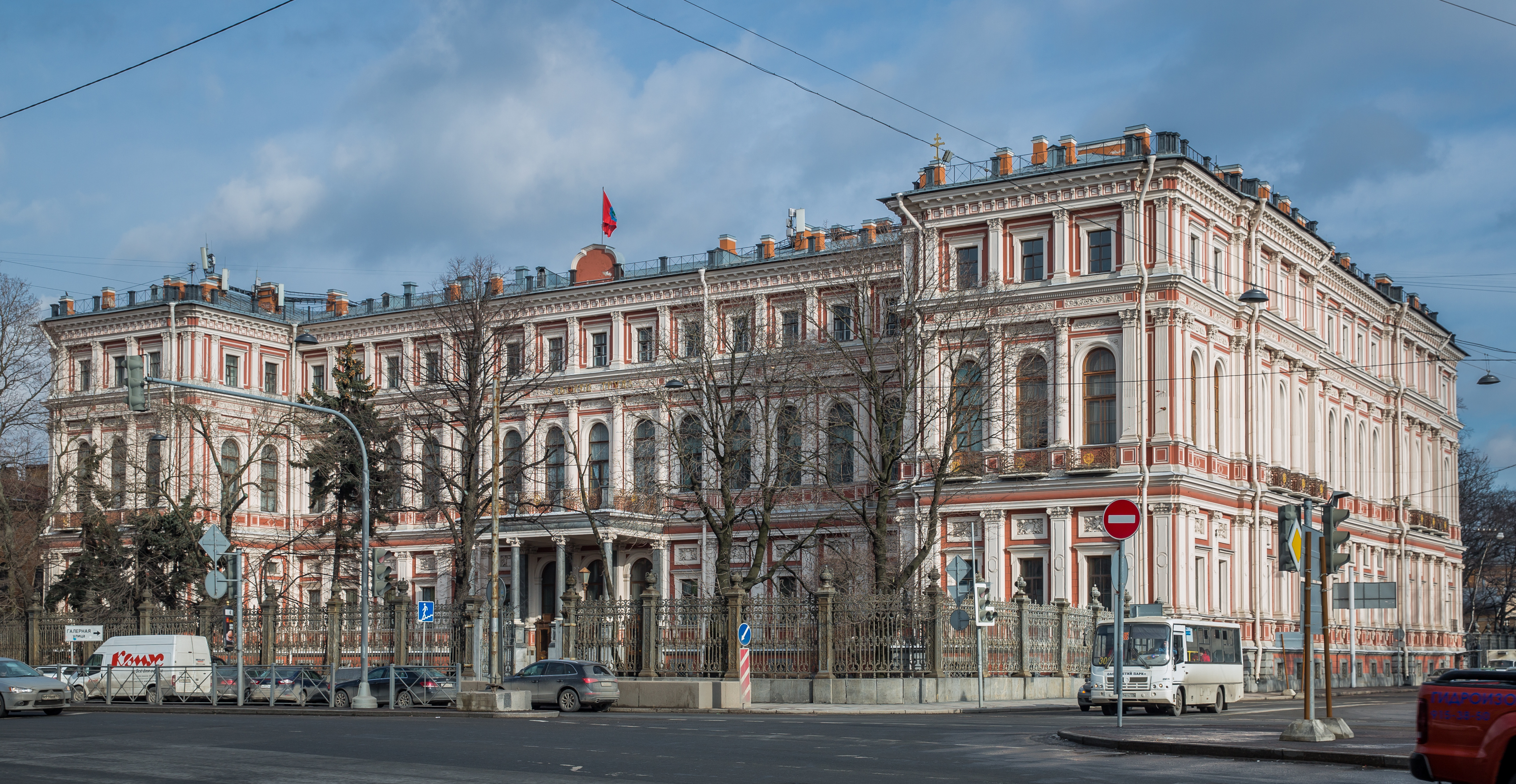 Nicholaevsky palace (Labour palace) in Saint Petersburg